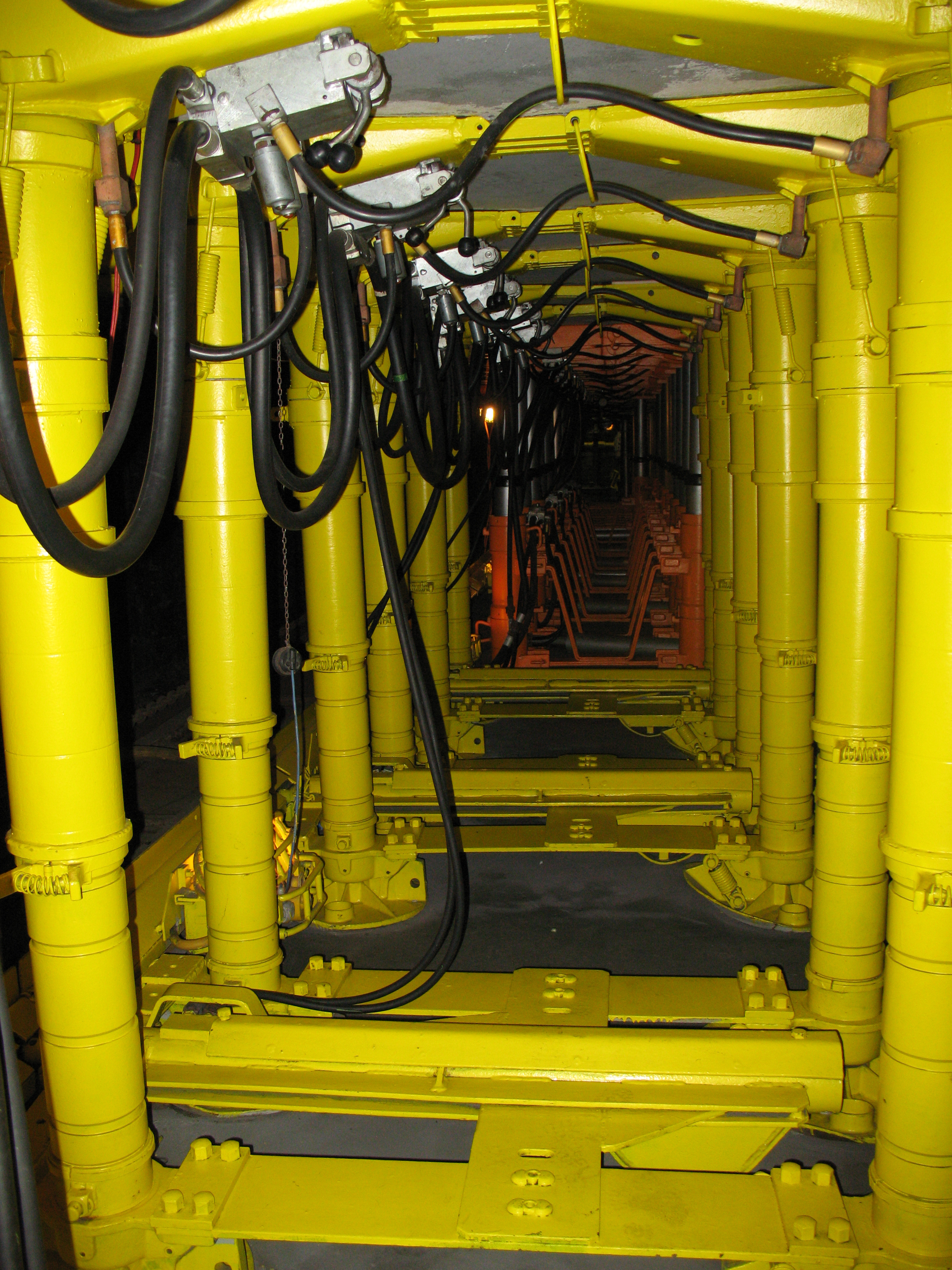 German Mining Museum in Bochum